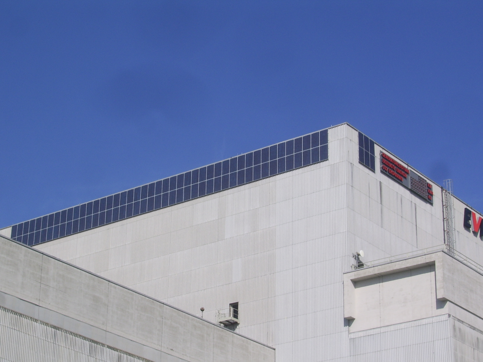 Detail of the Zwentendorf Nuclear Power Plant